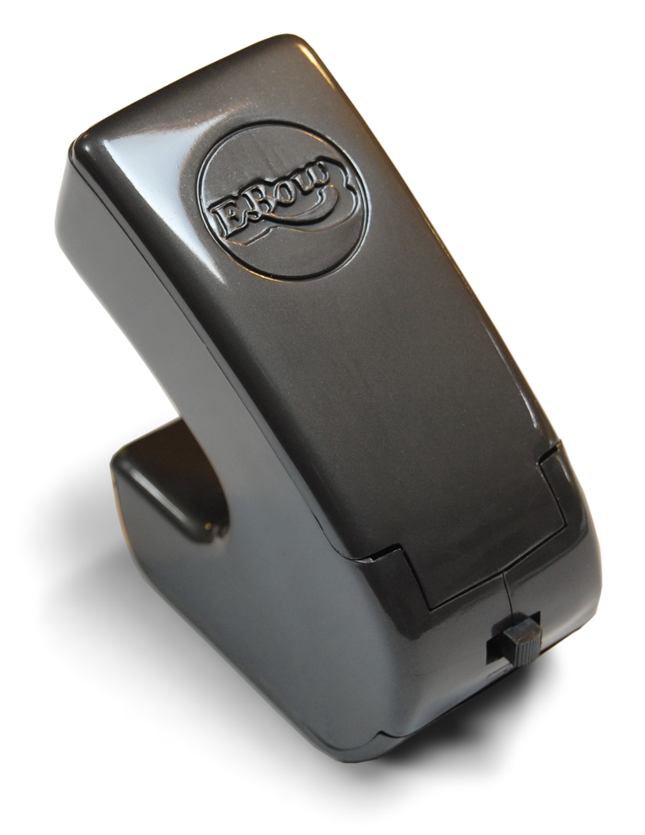 the PlusEBow